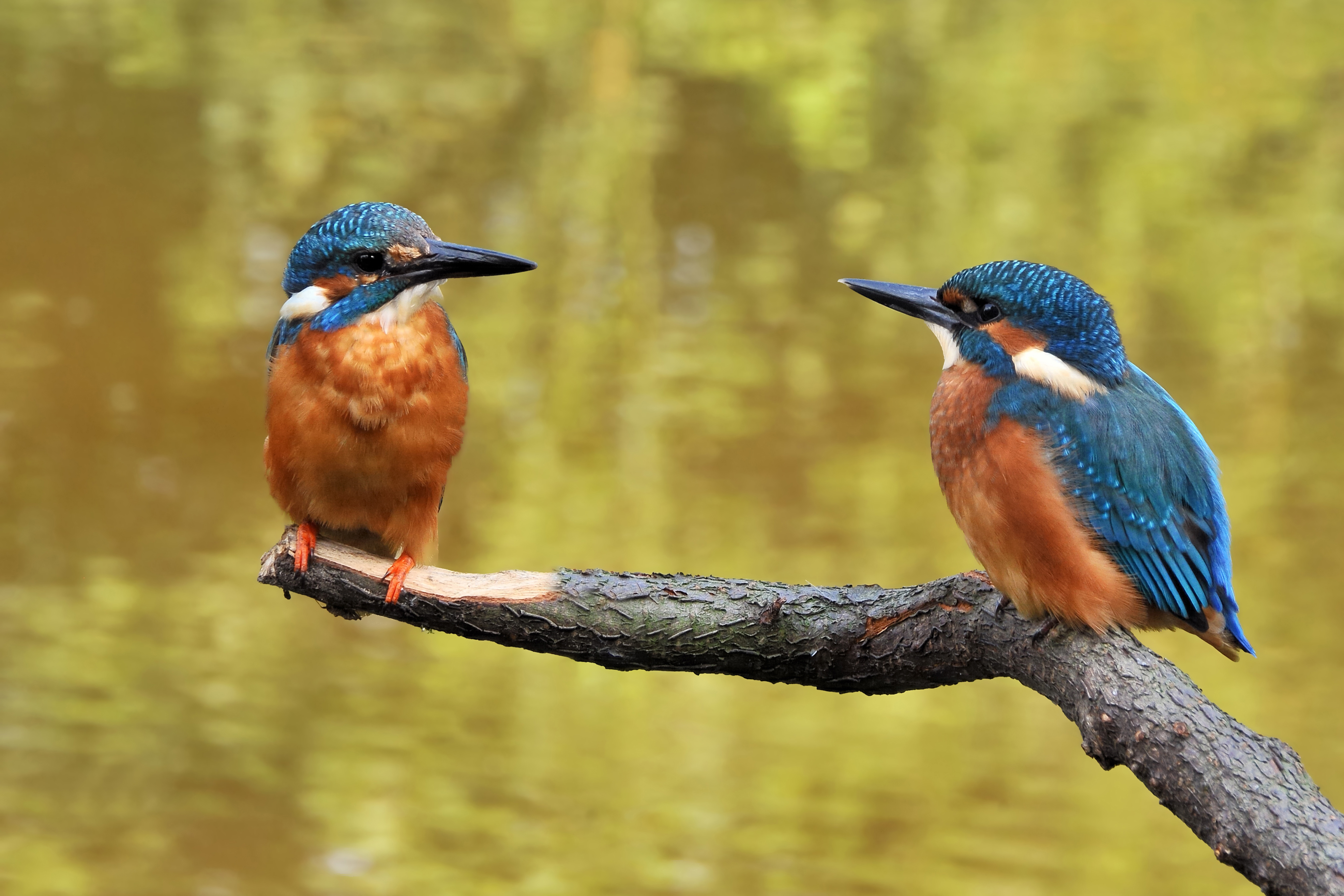 A male (left) Kingfisher (Alcedo atthis) and one juvenile (right) on a branch in the nature reserve „Berke Laue II“ (NSG BOR-070) in 48691 Vreden. This photo was taken from a camouflage tent on so-called Grit of Berkel (southeast of Lake Berkel and B70).